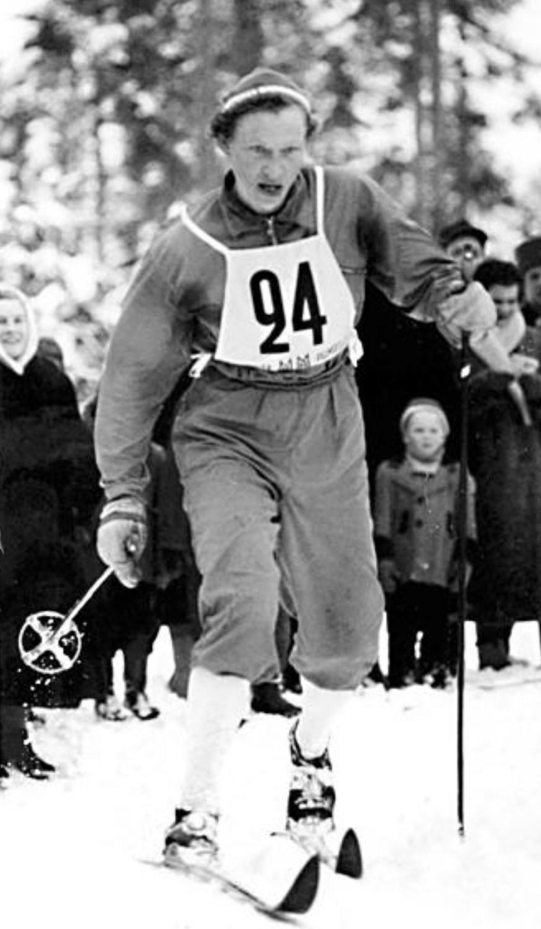 Siiri Rantanen at the 1958 World Championships in Lahti